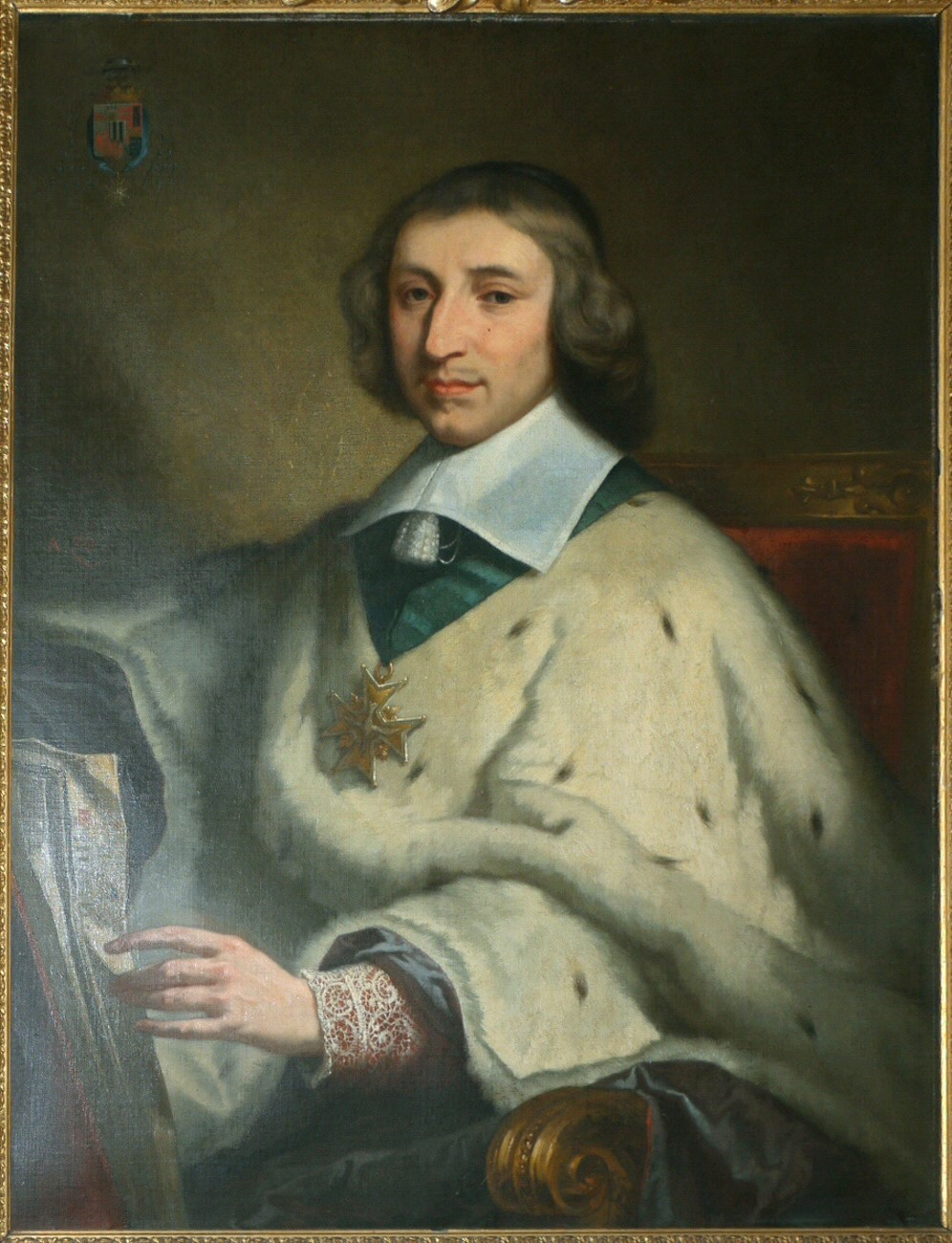 Contemporary portrait of François de Harlay de Champvallon